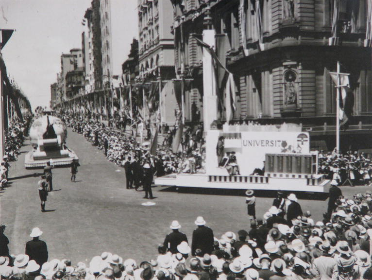 View showing floats in Australia's March to Nationhood Pageant. Crowds, banners, flags visible. Photographer SJ Hood. The Citizens of Sydney Organising Committee Archives.